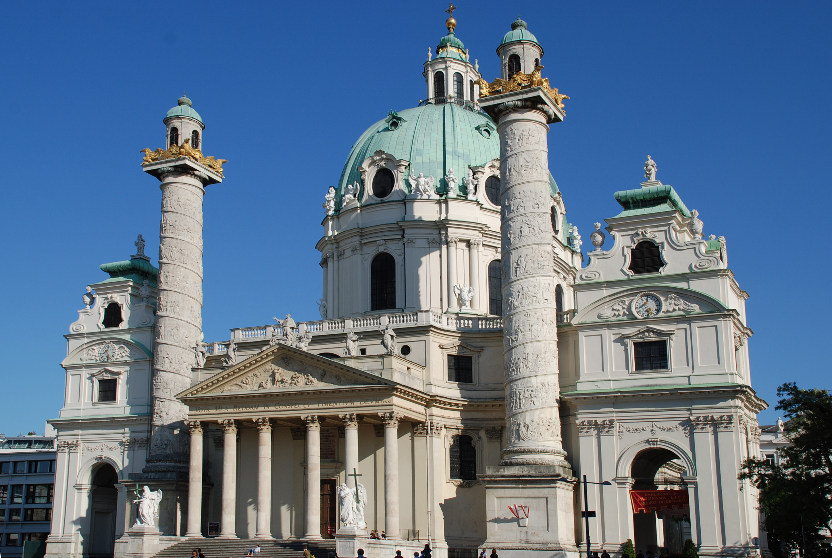 Austria, Vienna, St. Charles's Church